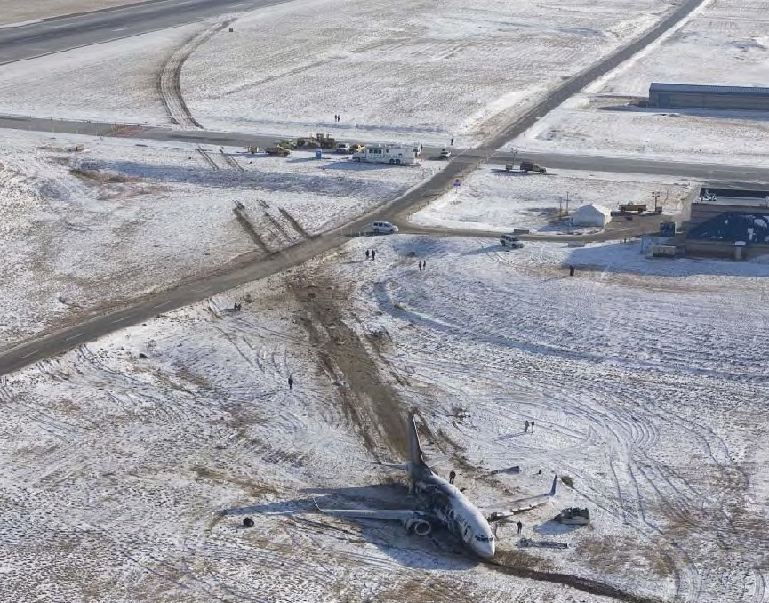 Continental Airlines Flight 1404 wreckage